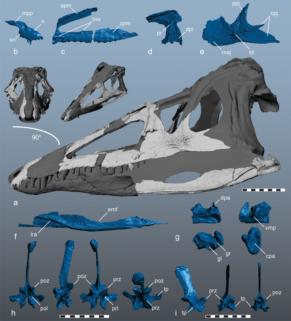 Figure 1: Three dimensional skull reconstruction and representative elements of Carnufex carolinensis (NCSM 21558). (a) reconstructed skull, clockwise from upper left, rostral, oblique, and lateral views; (b) right premaxilla, lateral view; (c) left maxilla, lateral view; (d) left lacrimal, lateral view; (e) left jugal, lateral view; (f) right angular, lateral view; (g) left articular, in (clockwise from upper left) lateral, medial, dorsal, caudal views; (h) cervical neural arch, in (left to right) caudal, lateral, cranial, and dorsal views; (i) dorsal neural arch, in (left to right) right lateral, cranial, and caudal views. Abbreviations: apm, ascending process, maxilla; bt, bulbous tuberosity; cpa, caudal process, articular; cpj, caudal process, jugal; cpm, caudal process, maxilla; dpa, dorsal process, articular; dpl, descending process, lacrimal; emf, external mandibular fenestra; gl, glenoid, gr, groove; lra, lateral ridge, angular; lrm, lateral ridge, maxilla; maj, maxillary articulation, jugal; mpp, maxillary process, premaxilla; n, naris; pol, centropostzygapophyseal lamina; poz, postzygapophysis; ppj, postorbital process, jugal; pr, prong; prl, centroprezygapophyseal lamina; prz, prezygapophysis; sn, subnarial notch; tp, transverse process; vmp, ventromedial process. Scale bar: 10 cm.